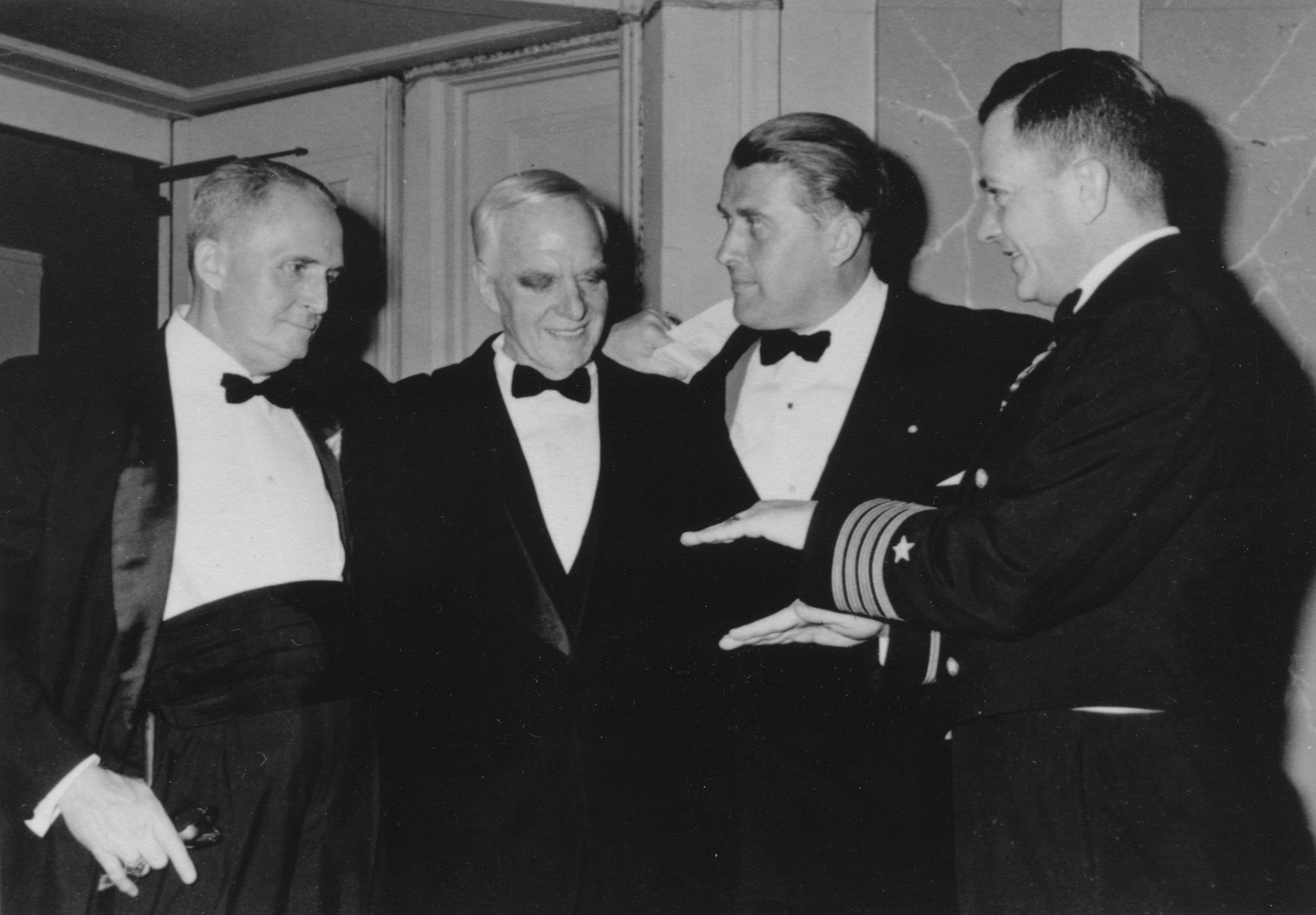 Anton Flettner shown second from left. Group photo also includes Wernher von Braun of the V-2 Rocket fame and later a primary contributor to the U.S. Space Program. (Family photo collection; E. Graven) Please see comment below, concerning correct order of personages.